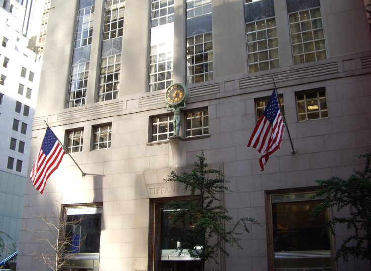 727 Fifth Ave, New York City - Tiffany Flagship store